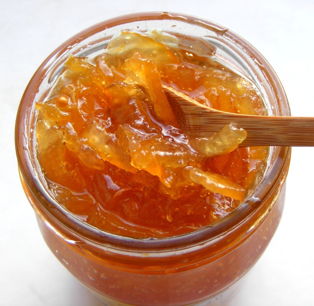 A jar of yucheong to make Korean yujacha (yuzu tea) which may reminds of marmalade.